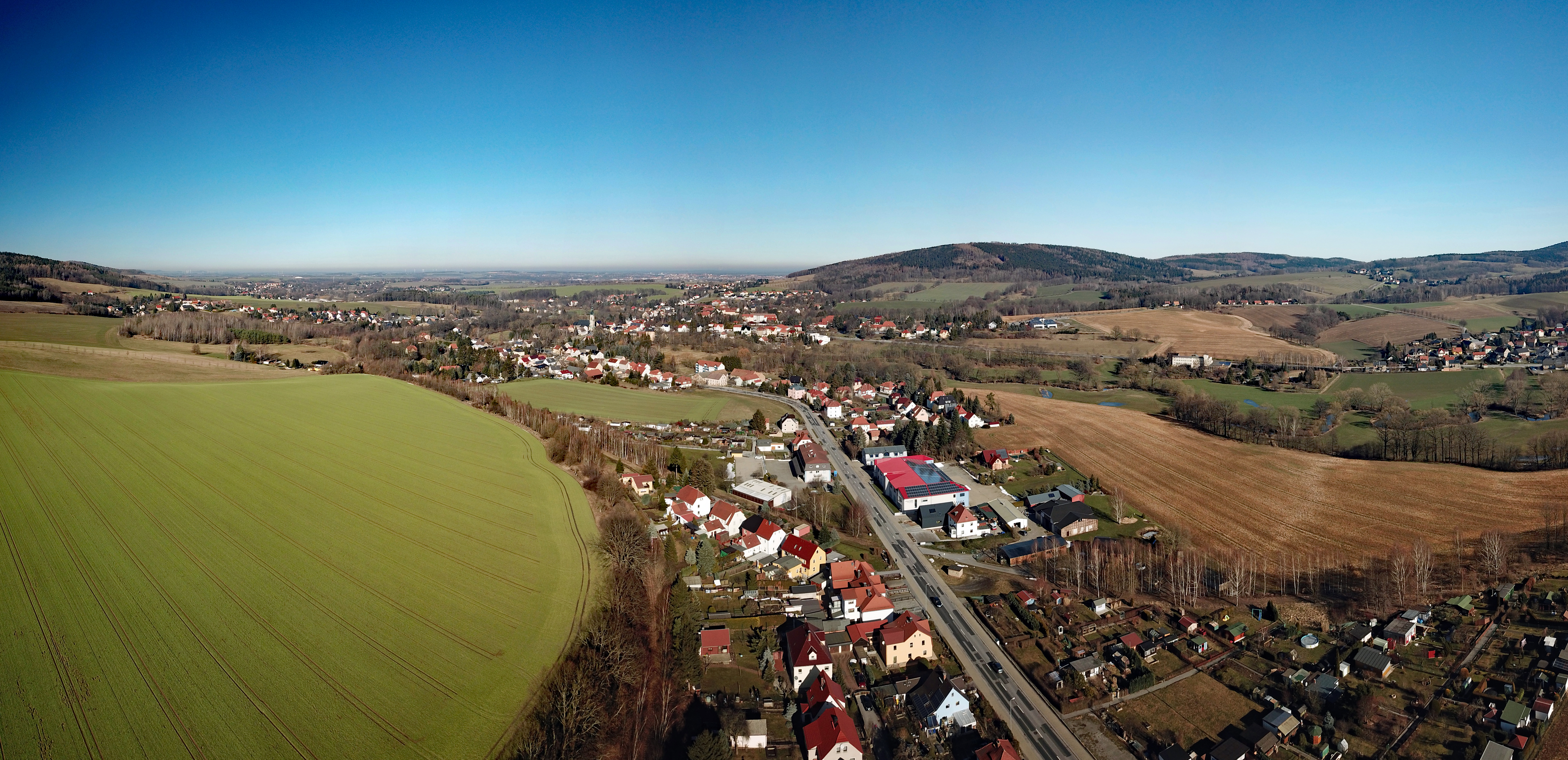 Großpostwitz, Saxony, Germany Hornjoserbsce: Powětrowy wobraz Budestec z Lubinom w pozadku